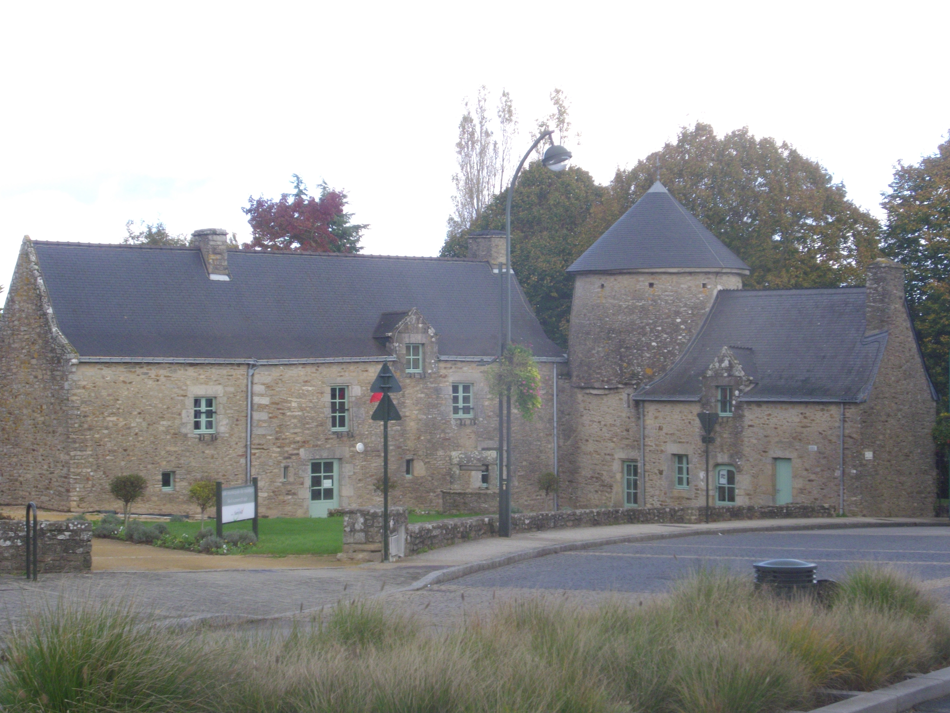 Kreisker manor in Saint-Avé (Morbihan, France)